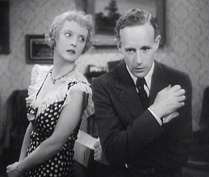 Cropped screenshot of Bette Davis and Leslie Howard from the film Of Human Bondage.